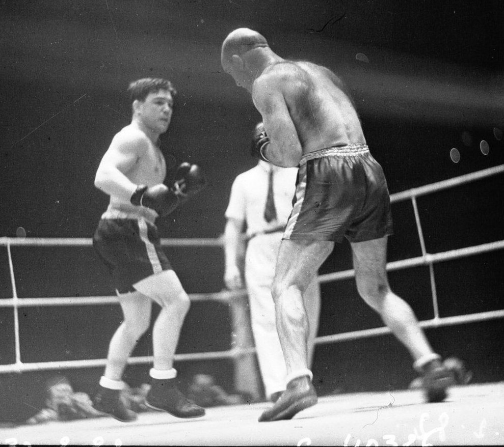 Boxing Match: Marcel Thil vs. Lou Brouillard : [press photograph]